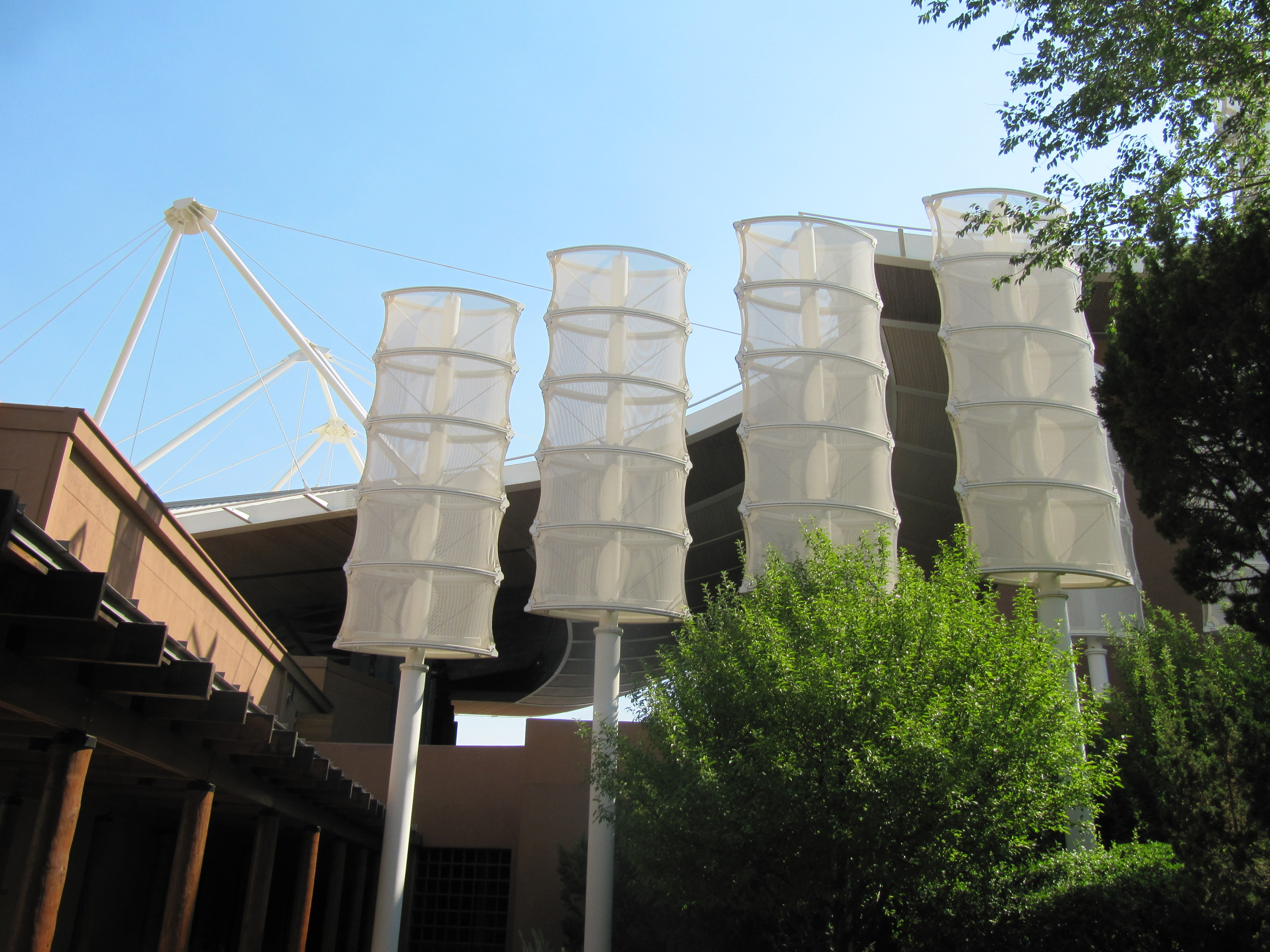 Wind/rain panels placed on the south side of the Crosby Theatre at the Santa Fe Opera